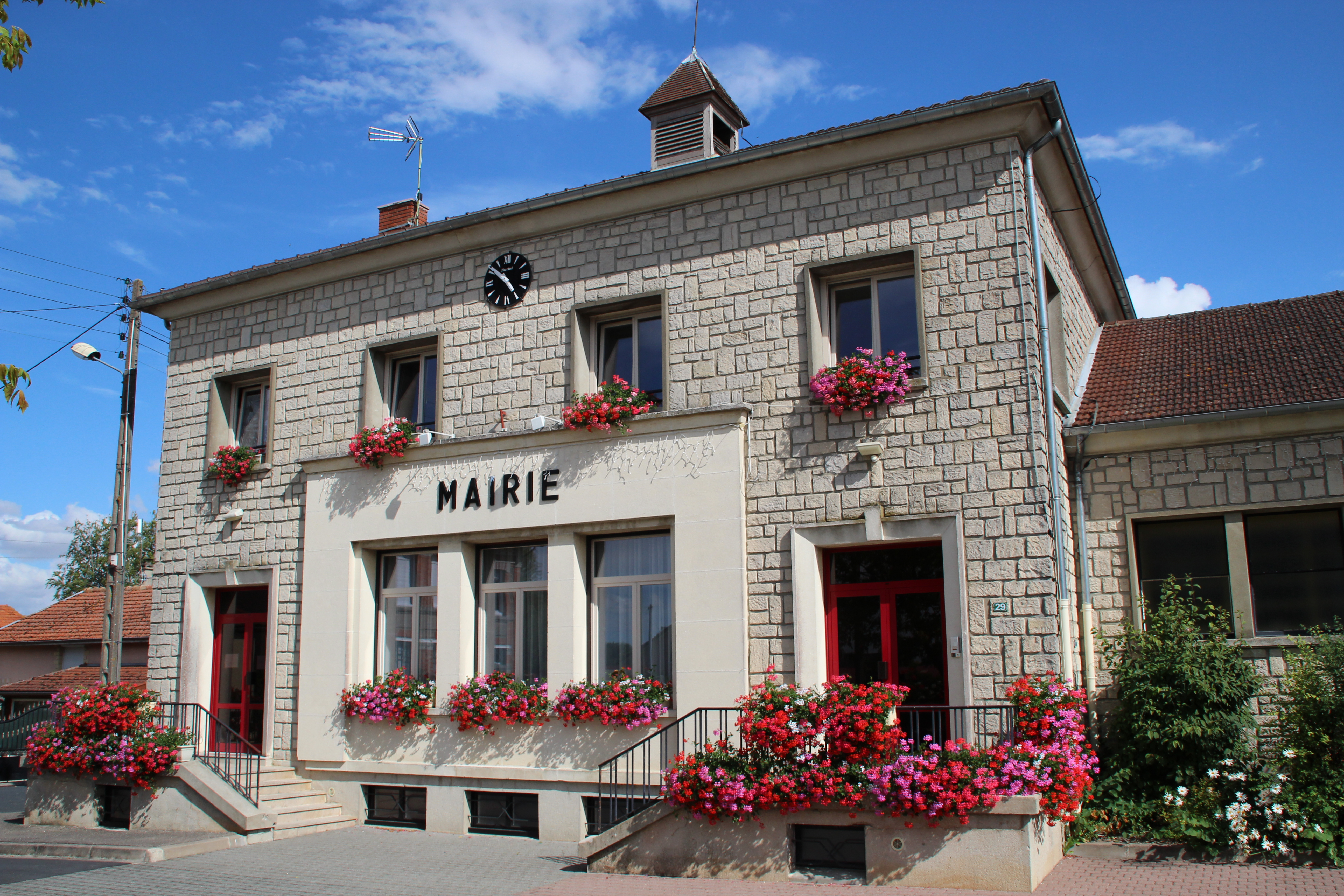 Views of Sommesous village in France in 2012.